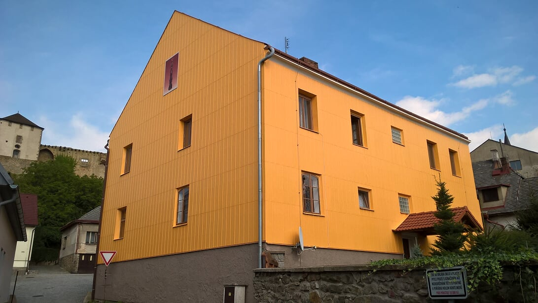 rectory in Lipnice nad Sázavou